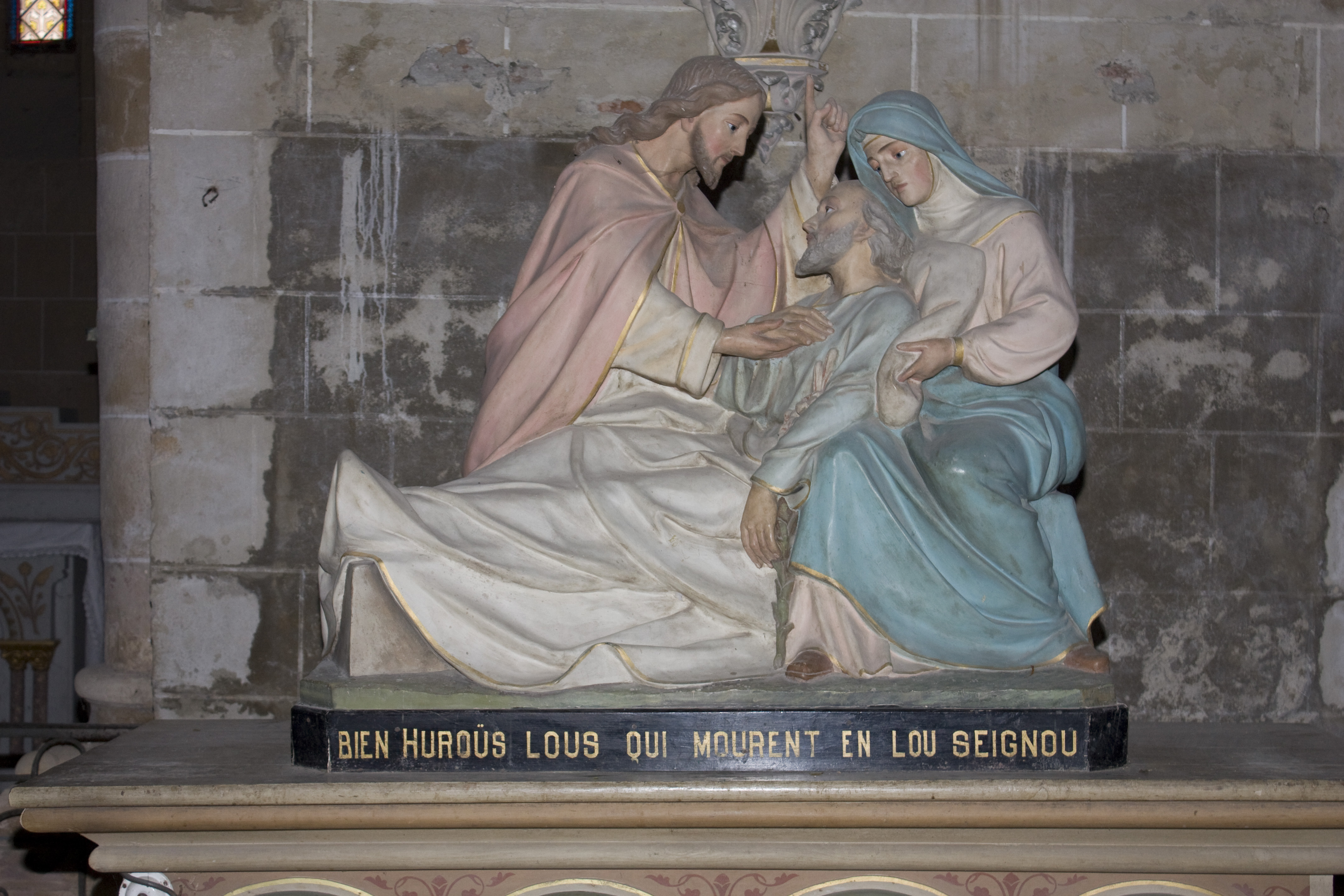 Group bearing an inscription carved in